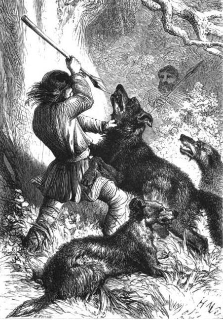 Anglo-Saxon wolf hunt with wolfhounds